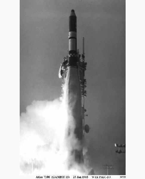 Launch of the Atlas SLV-3 Agena D rocket with KH-7 15 satellite.